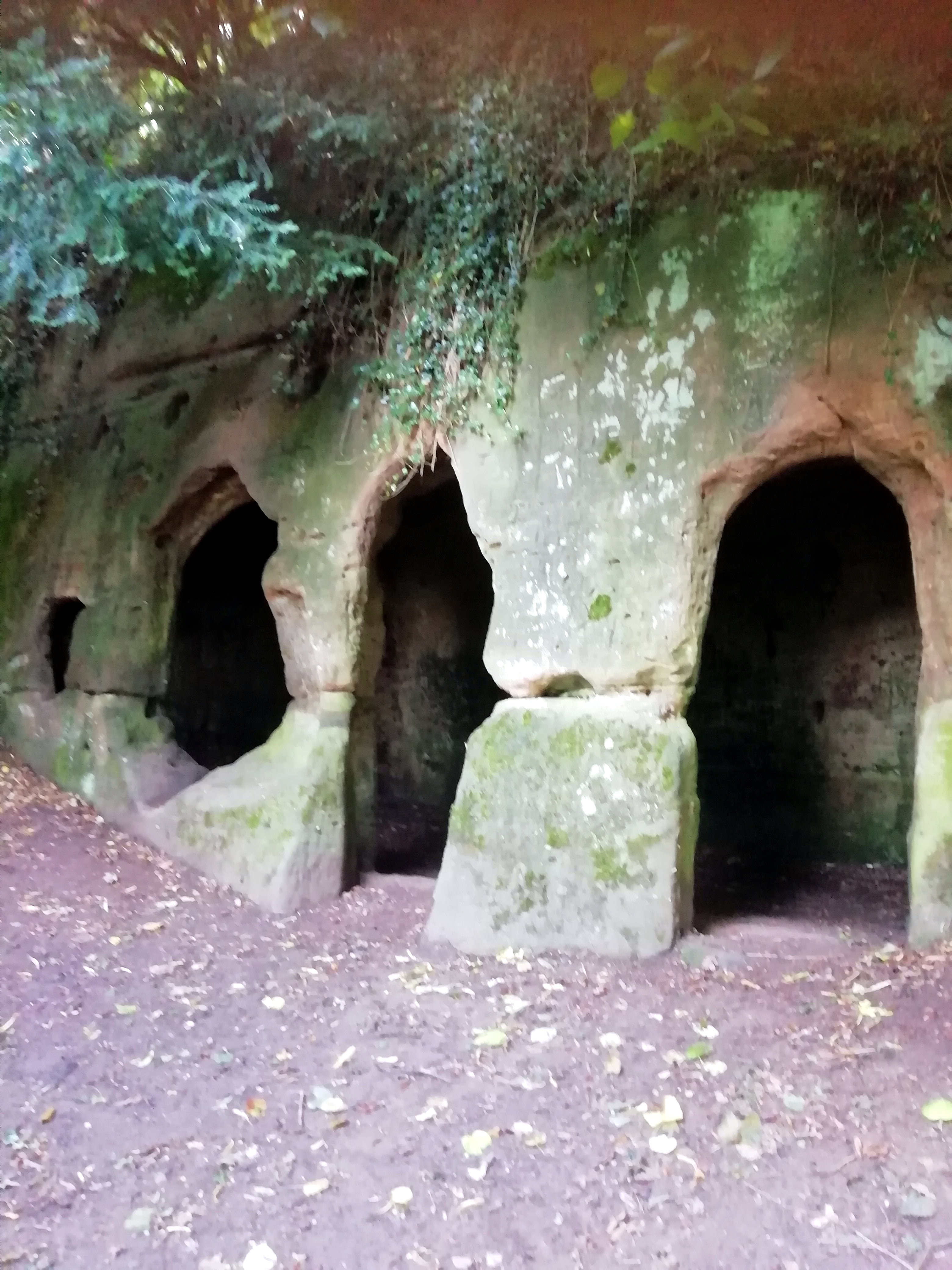 View of the hermitage about 250m south of Dale Abbey, Derbyshire. Approaching along footpath from west.